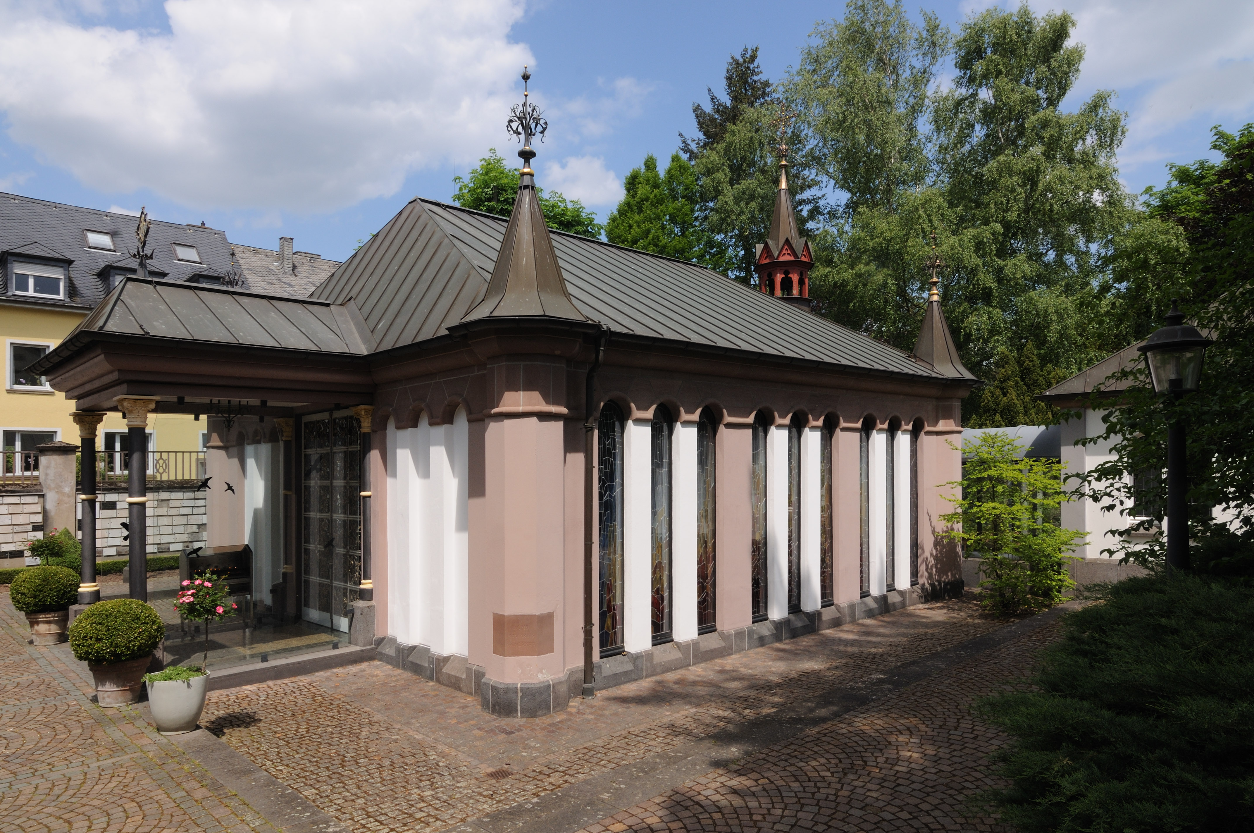 Mary-Help-Chapel in Trier